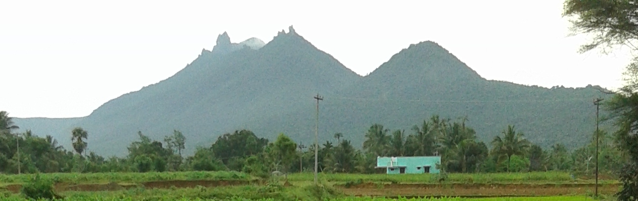 Godumalai (Salem - Attur Road)